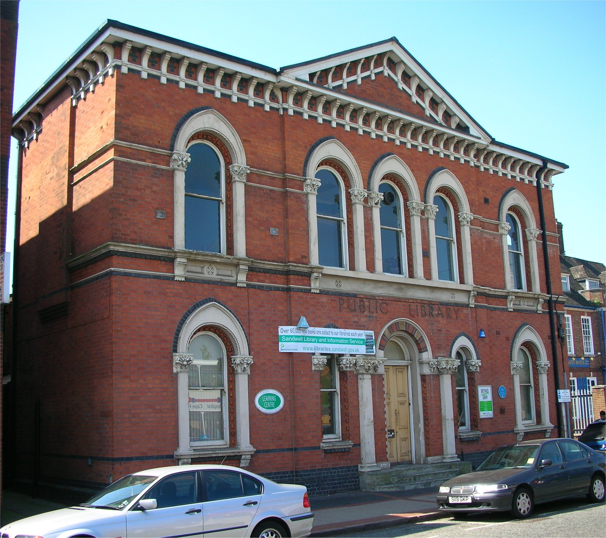 The public library in Smethwick, West Midlands, England. Designed by Yeoville Thomason. Photographed by me 2 May 2007. Oosoom